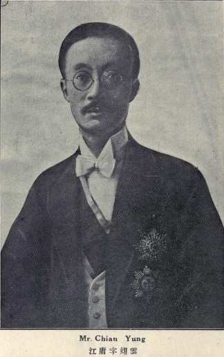 Jiang Yong, Yiyun (1877 - 1960)